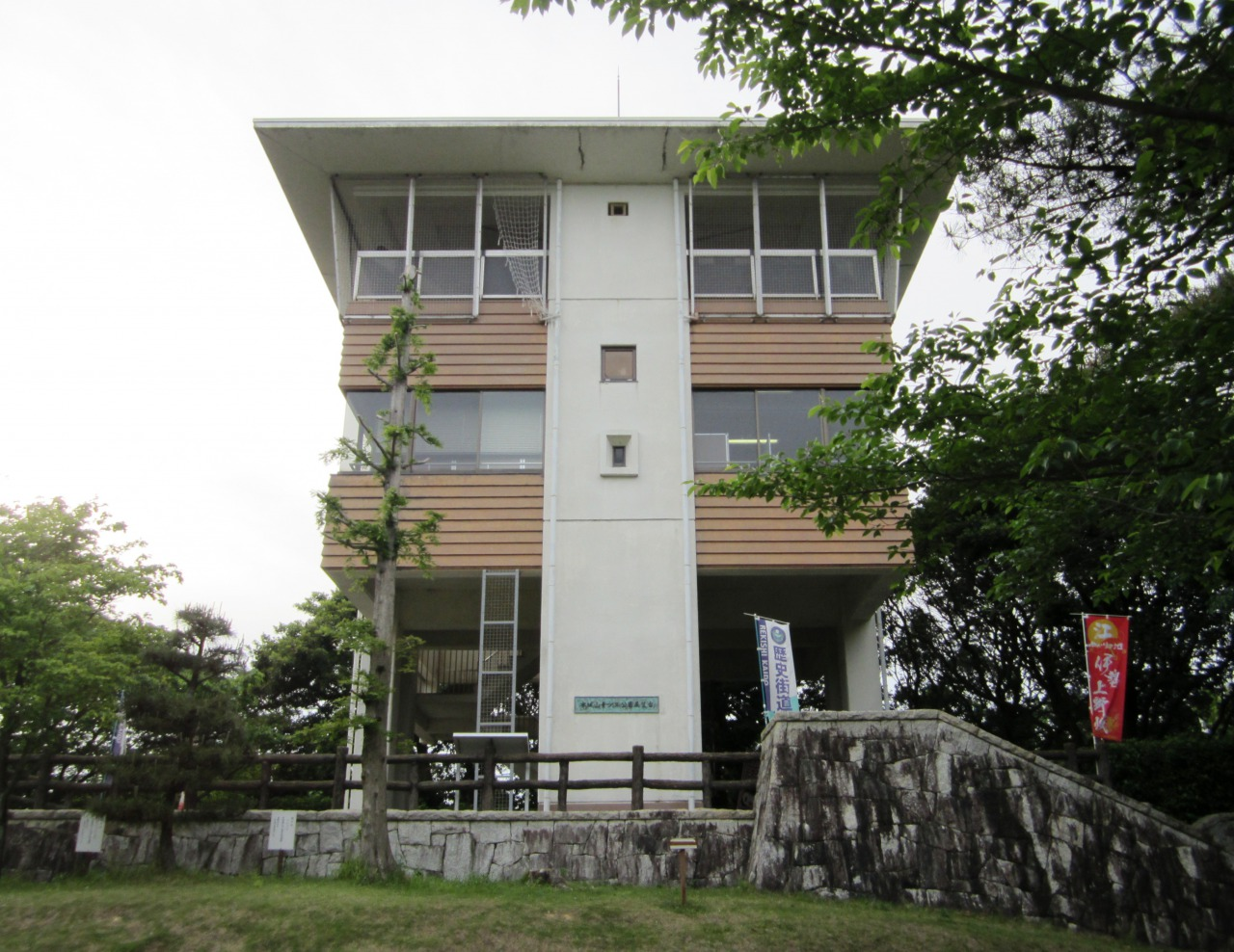 The Site of Ise Ueno Castle in Tsu, Mie.